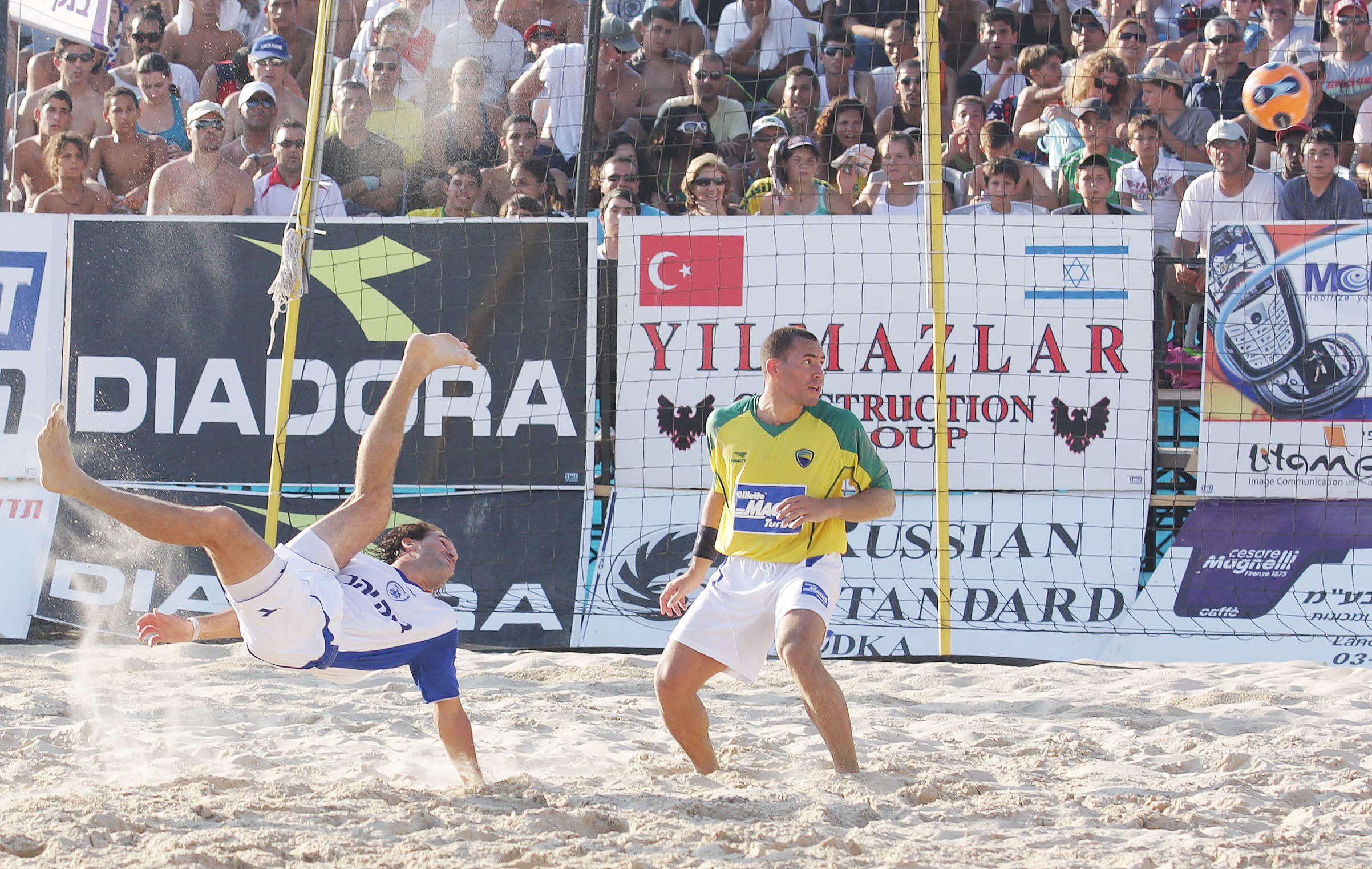 Photo from the friendly match (called the Solidarity Cup) between the Israeli and the Brazilian beach soccer teams, that occured on 11 July 2008, at the Poleg beach in Netanya. The game was played to note 60 years of Israeli independence. On this photo Tzahi Ilos performs the Bicycle kick, also known as Overhead kick.